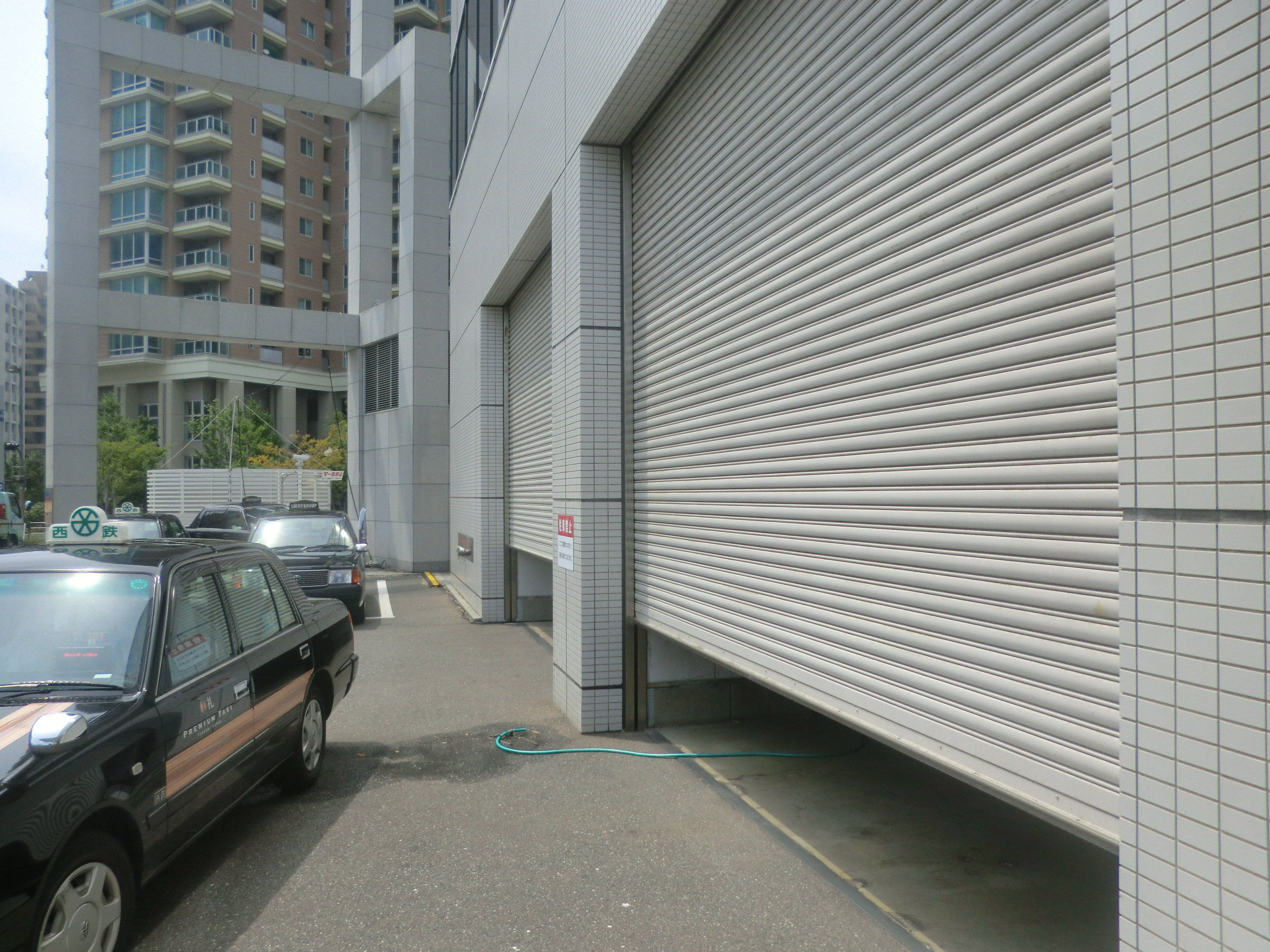 East entrance of Television Nishinippon Corporation(TNC,TV station broadcasting in Fukuoka prefecture).